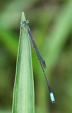 Male Aciagrion gracile, graceful slim, Berg-en-Dal, Kruger National Park. OdonataMAP record no. 1872